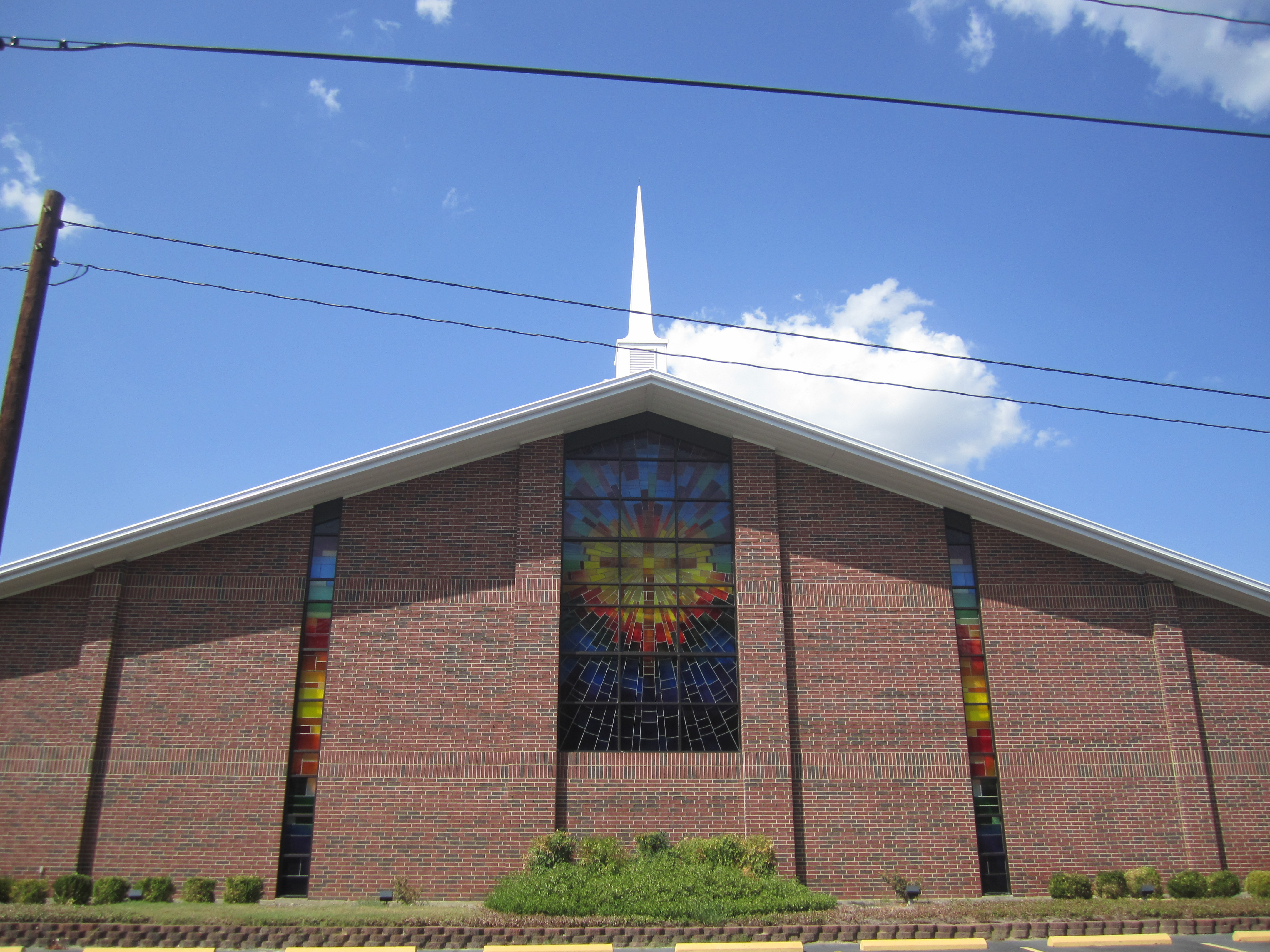 I took photo of Emmanuel Baptist Church in White Oak, TX, with Canon camera.